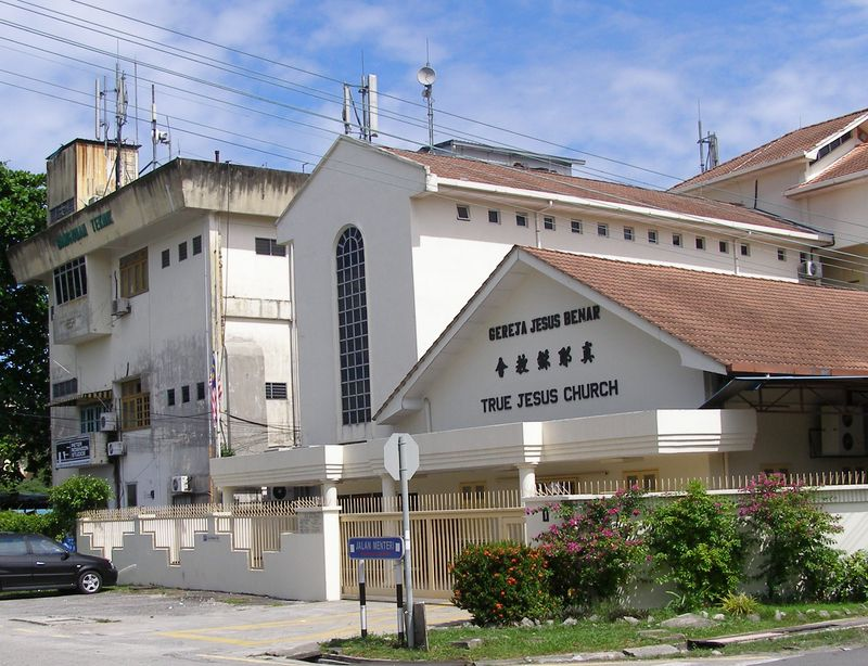 Picture of True Jesus Church in Kuala Lumpur